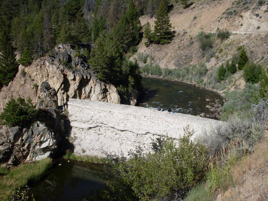 Sunbeam Dam and the Salmon River along Idaho State Highway 75. The Sunbeam Consolidated Gold Mines Company built the dam in 1909 to provide power for mining operations on Jordon Creek 13 miles (21 km) away. The operation went bankrupt 2 years later and the State of Idaho dynamited the dam in 1934.